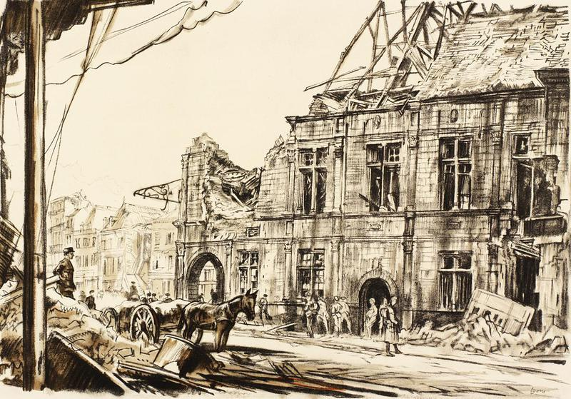 War Drawings by Muirhead Bone- the Town Hall, Peronne